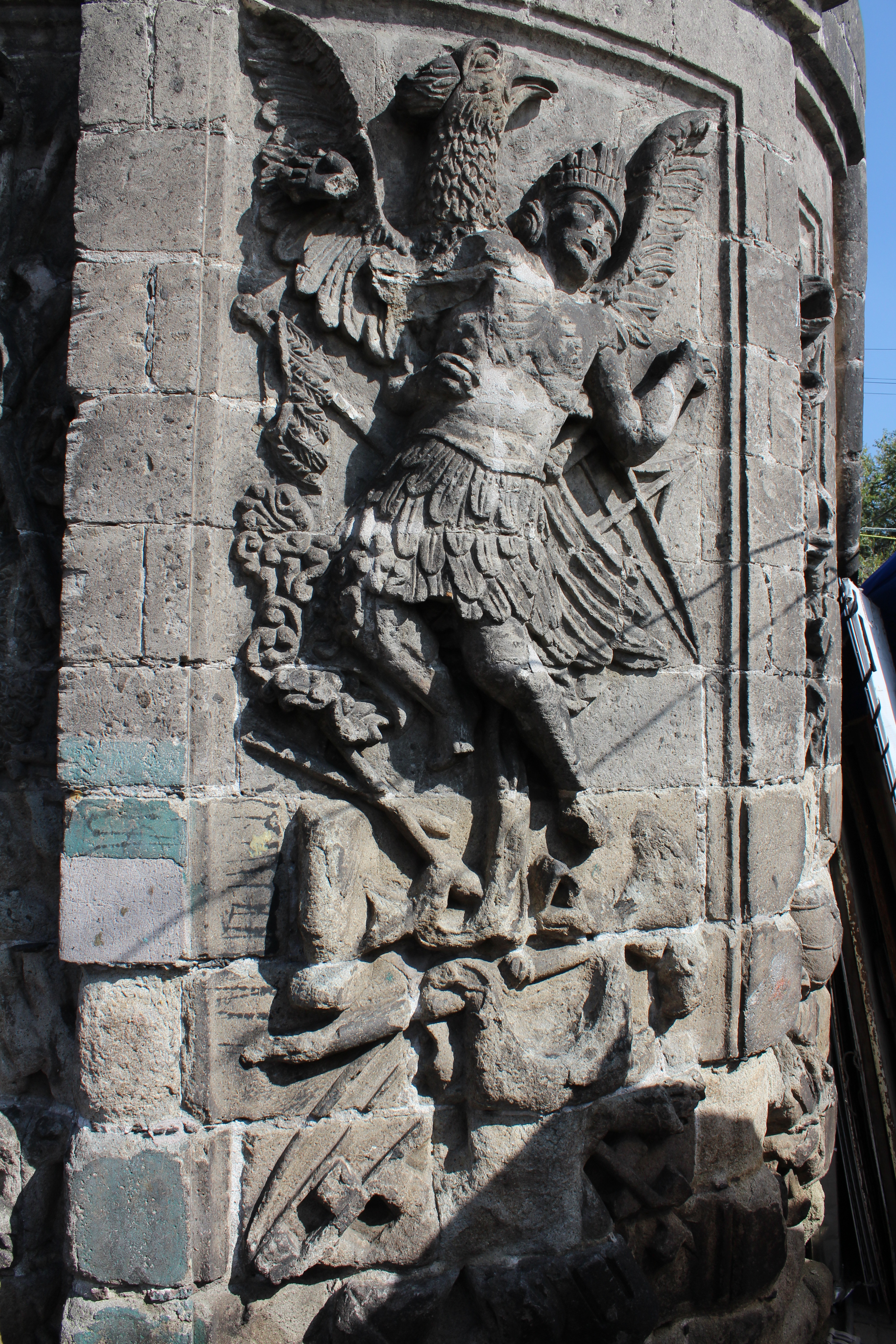 Monument to the Spaniards soldiers who died in 1520 in the channel of the Toltecs or Tlaltecayohuacan the night of 30 June 1520. Temple of San Hipolito, Mexico City.中文（中国大陆）: 纪念碑西班牙人士兵在托尔提克或Tlaltecayohuacan的通道夜间在1520年死于6月30日1520寺圣伊波利托的，墨西哥城。